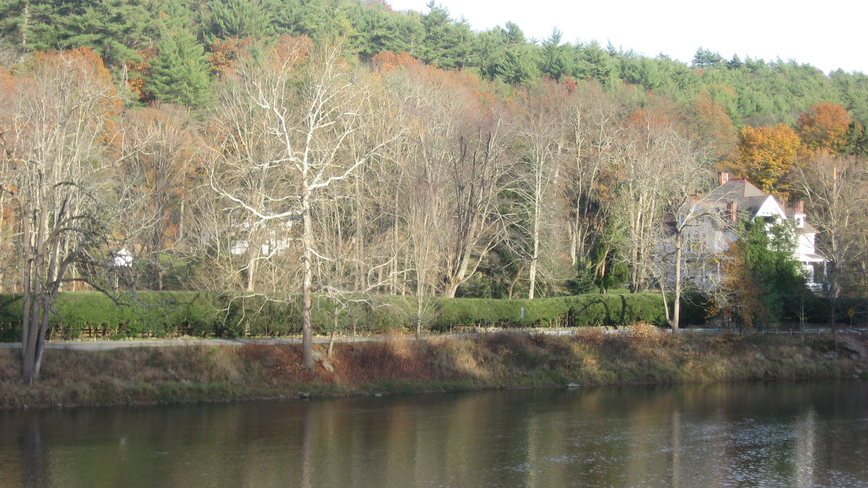 Overview of the Anthony Wayne Cook Mansion and its estate, located along the Clarion River in Barnett Township, Forest County, Pennsylvania, United States. Photo looks east from the Pennsylvania Route 36 bridge over the river. Built in 1880, the estate is listed on the National Register of Historic Places.